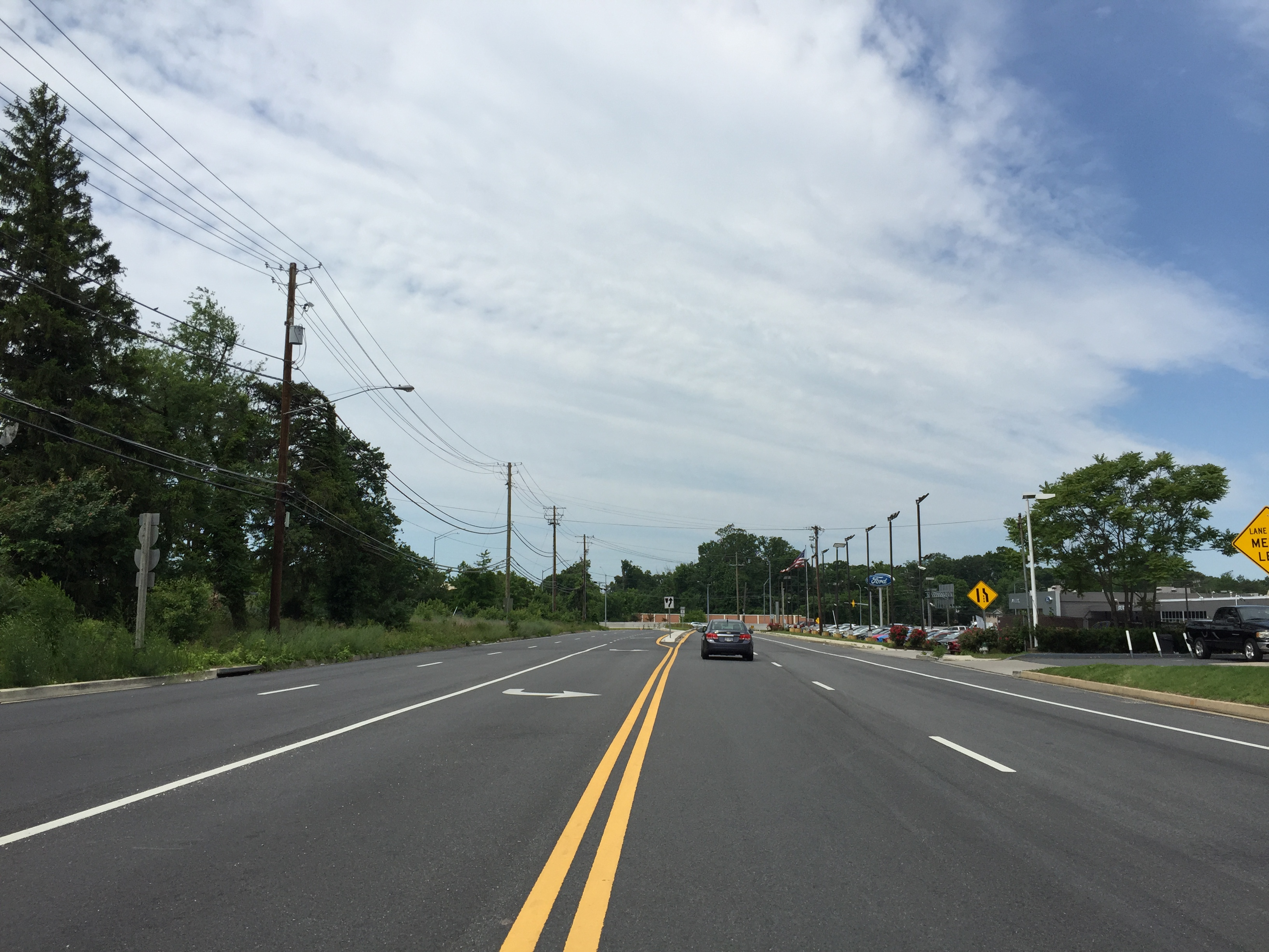 View west along Maryland State Route 535 (Auth Road) at Auth Place in Camp Springs, Prince George's County, Maryland